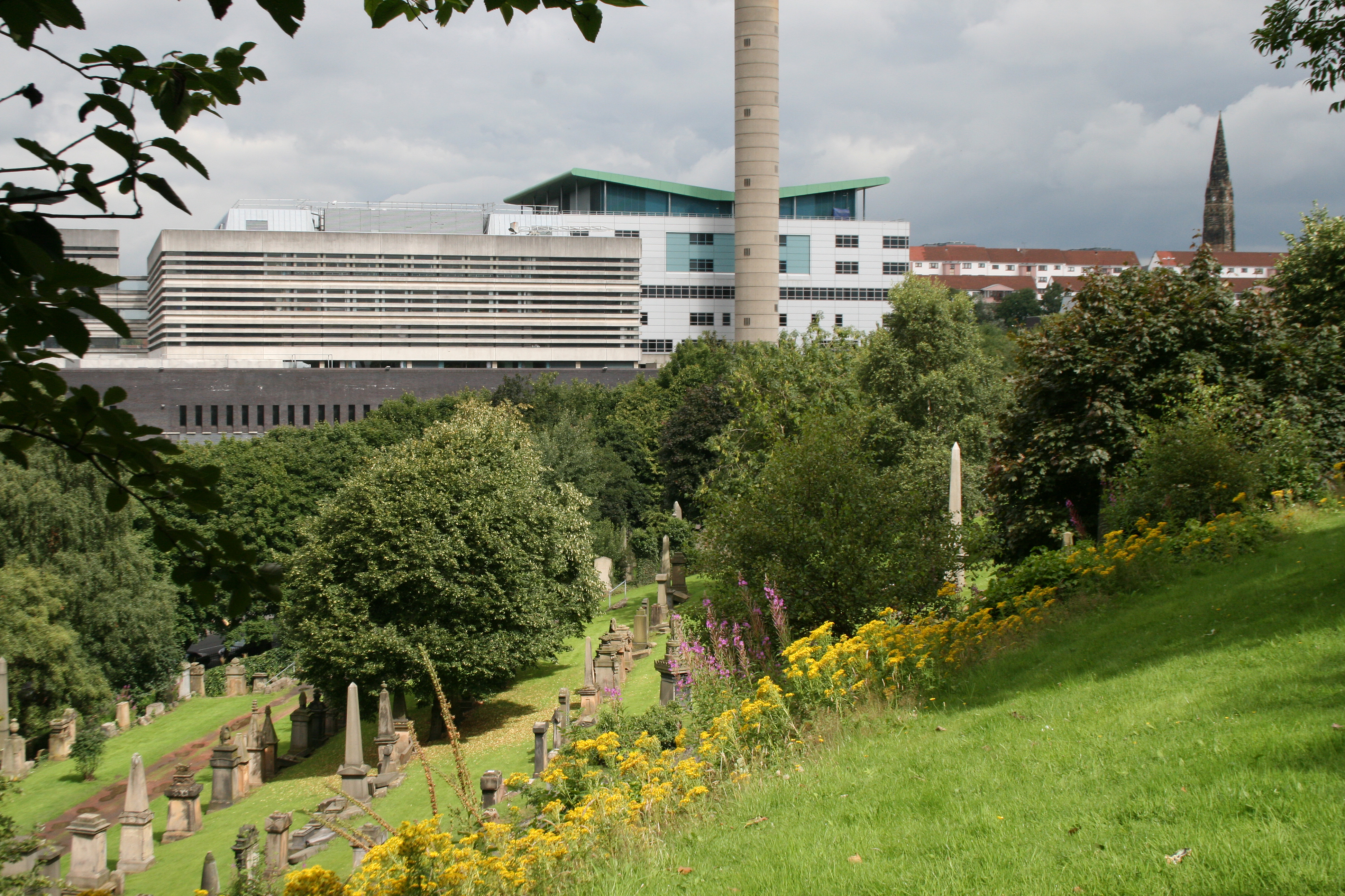 Glasgow Necropolis. In the background: modern buildings of the Royal Infirmary; to the right: St. Joseph Spire